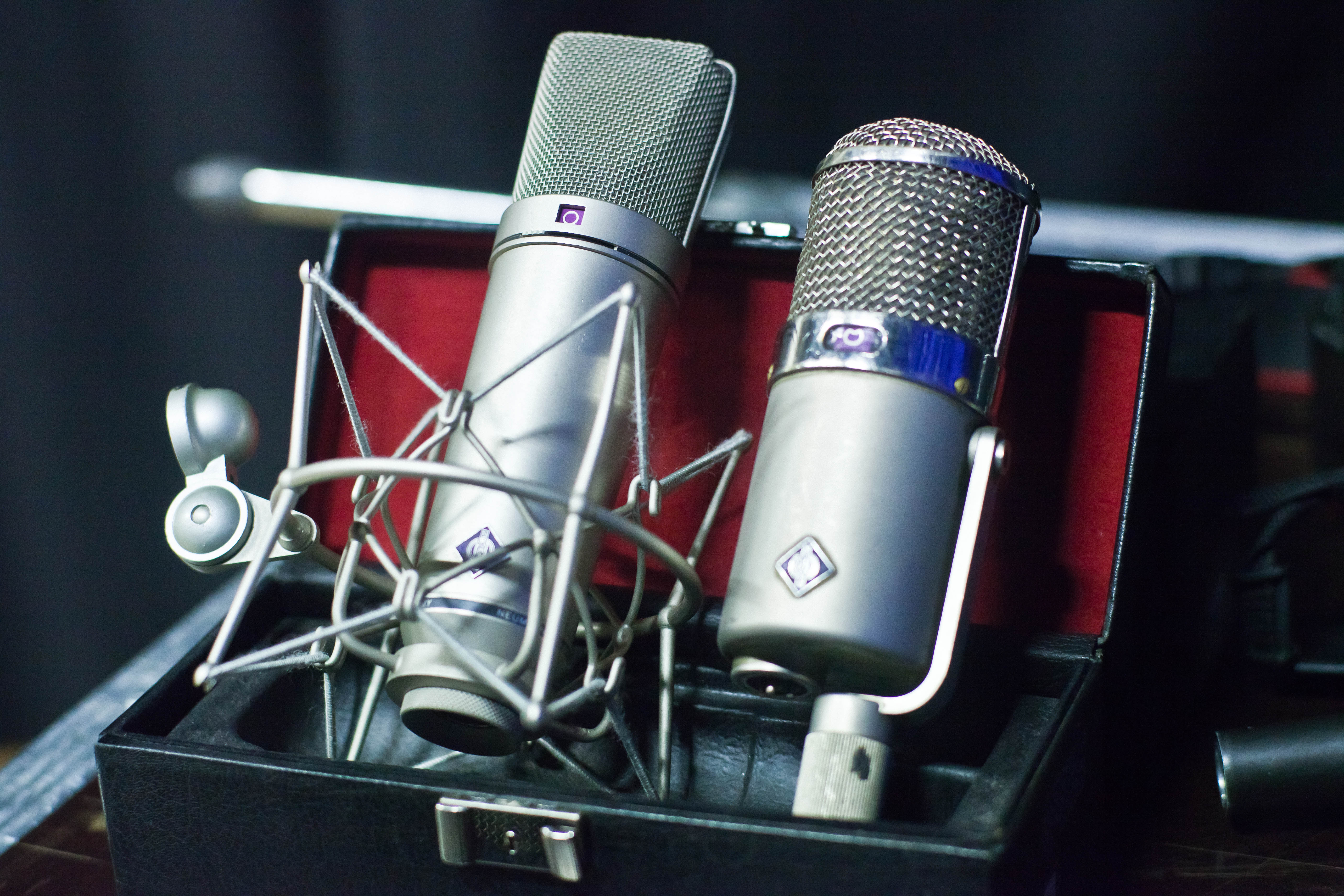 the ultimate microphone-p0rn couple: Neumann U87 and U47 feti